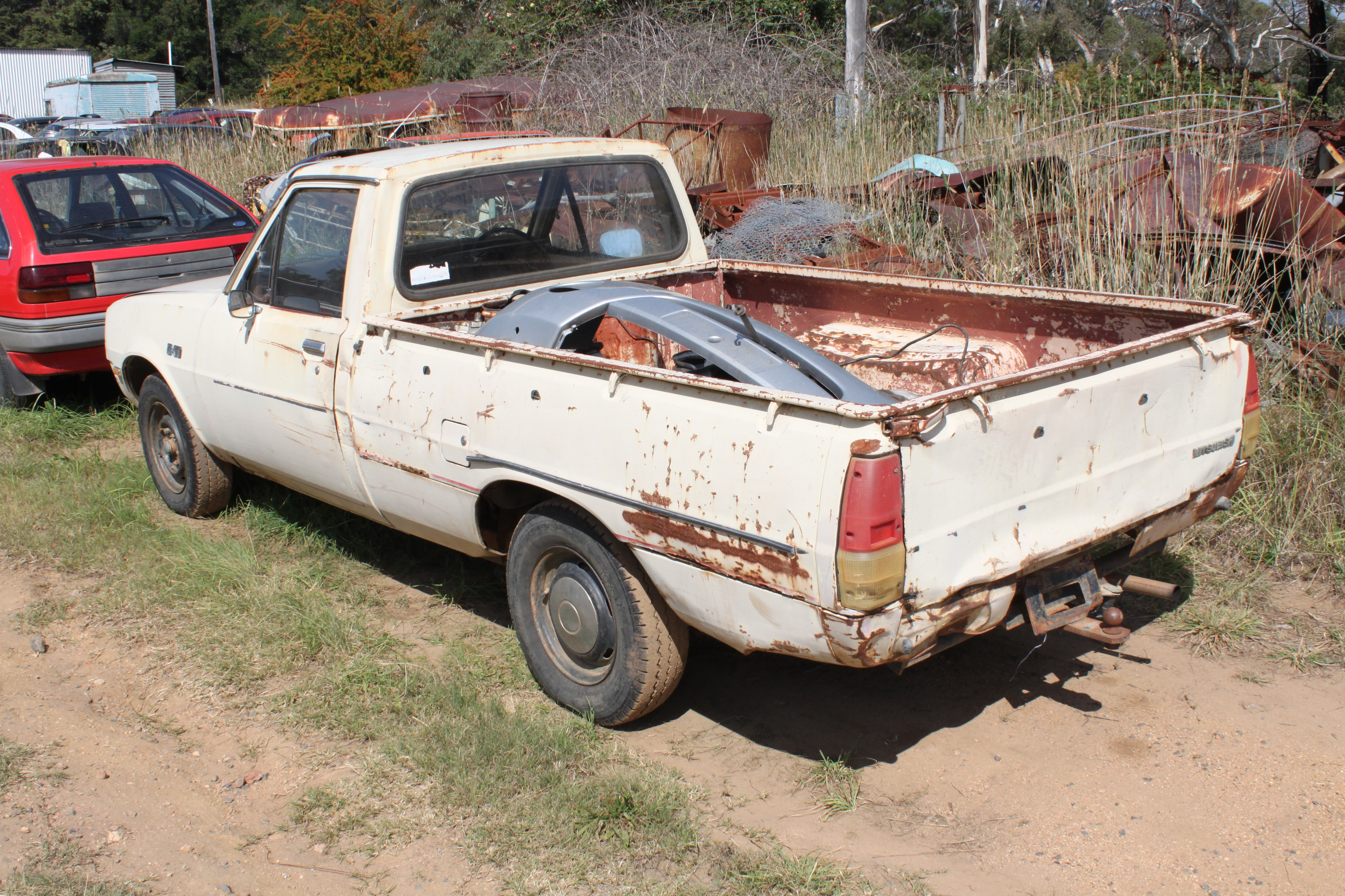 Flynn's Wrecking Yard, Cooma, NSW